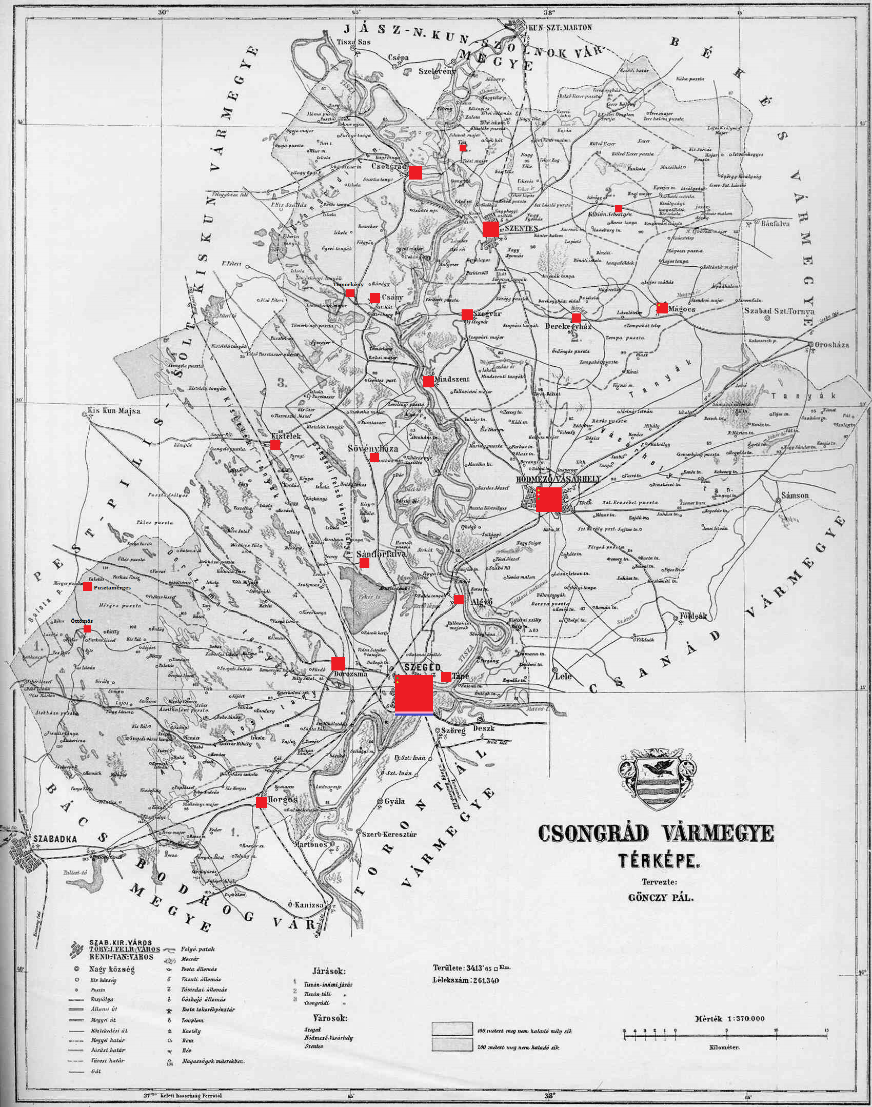 Ethnographic map of the county (with data of the 1910 census). Key: red - Hungarians; pink - Germans; light green - Slovaks, dark blue - Serbs; dark green - Romanians. Coloured dots in plain rectangles imply the presence of smaller minority populations (generally more than 100 people or 10%). Multicoloured rectangles imply cities and villages with multi-ethnic populations with the order of the stripes following the ethnic composition of the settlement.